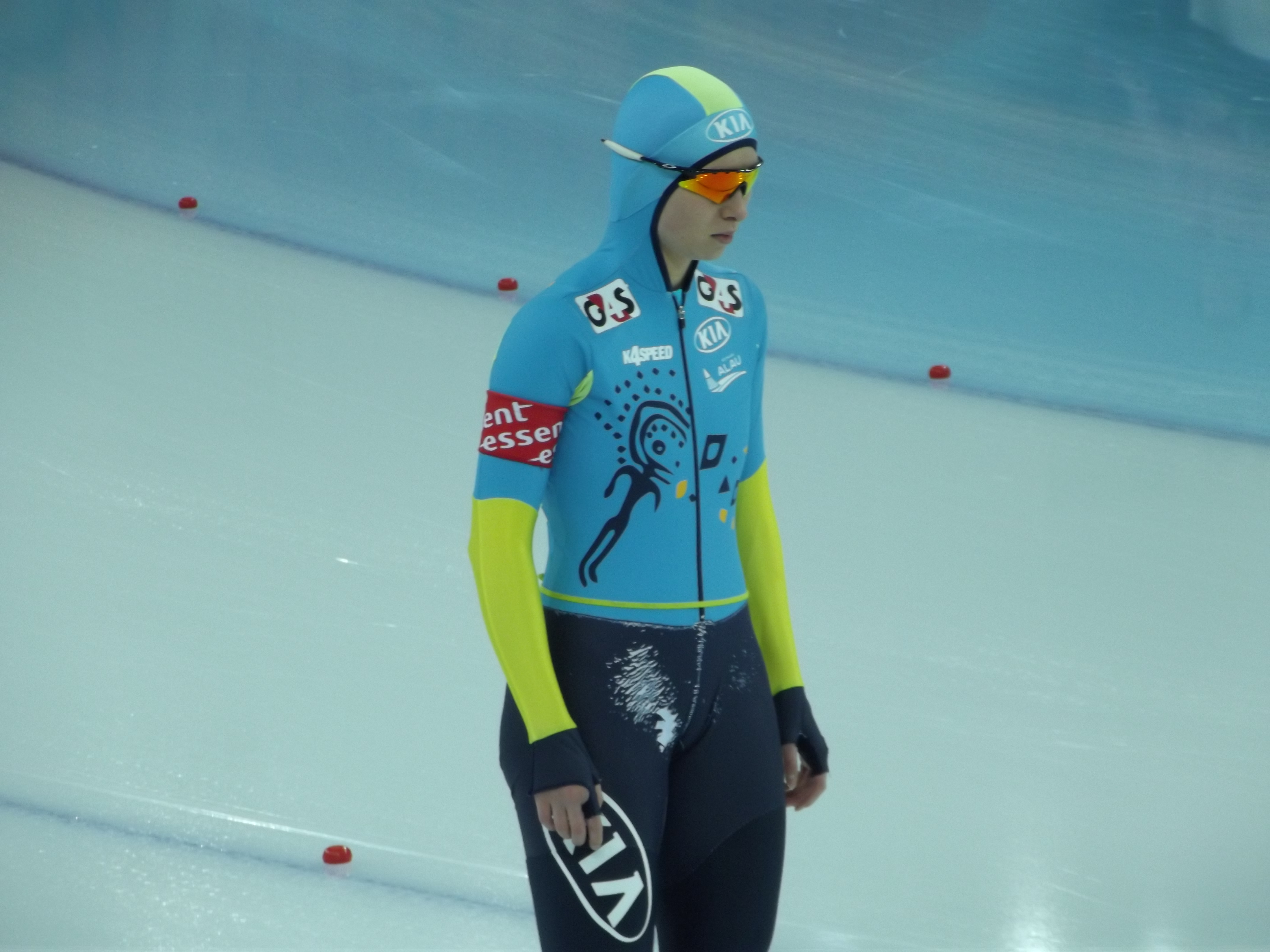 2013 World Single Distance Speed Skating Championships